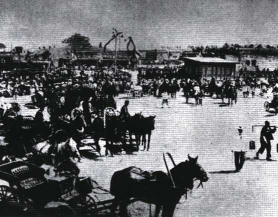 Vasily V. Sakharov visited Dalny Station for the second time on July 26, 1902.